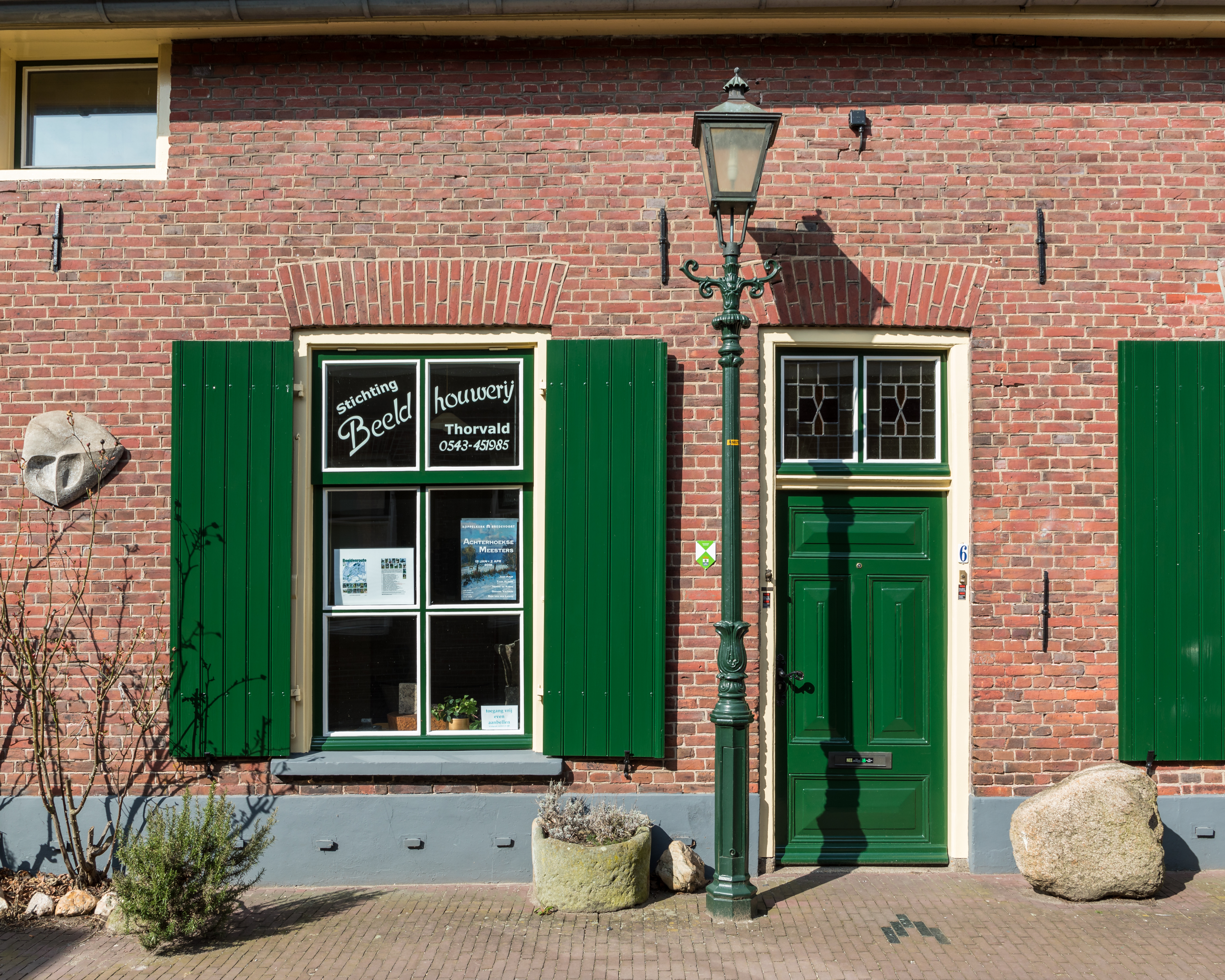 Bredevoort, Gelderland, Netherlands